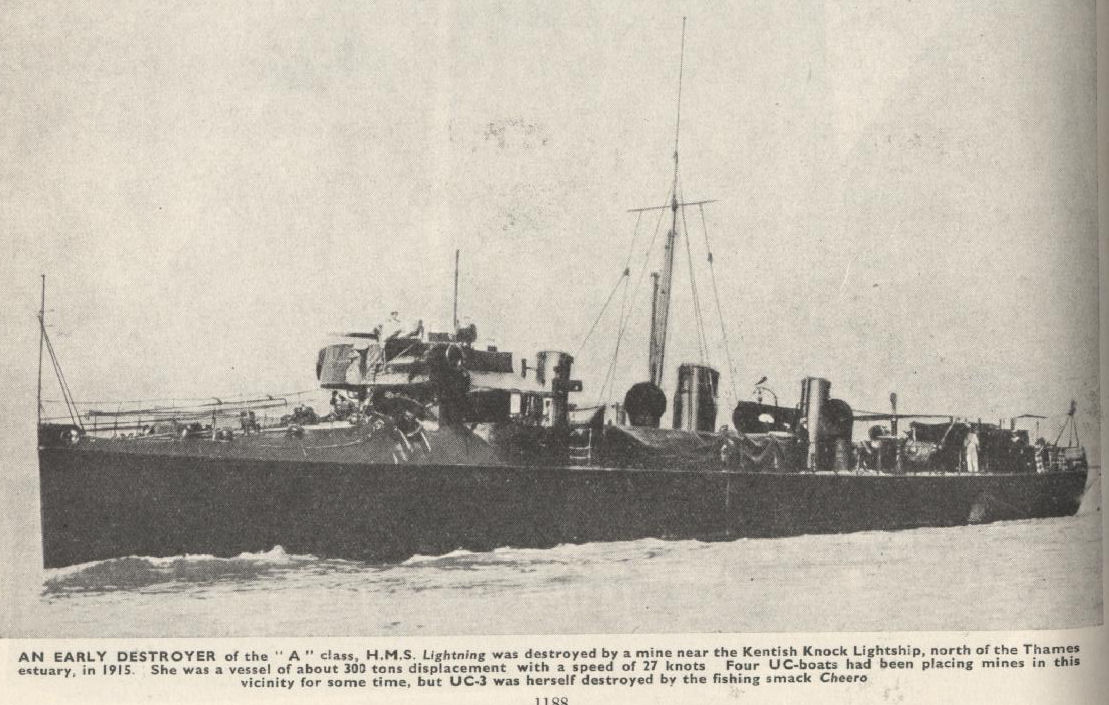 Der bei Palmers gebaute britische Zerstörer Lightning